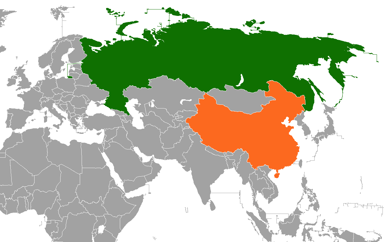 Russia (green) and China (orange)